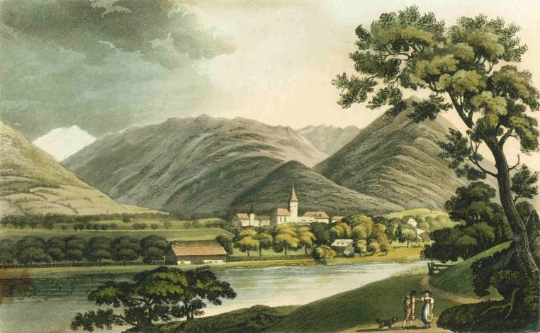 English Aquatint entitled View of Interlaken, dated 1821